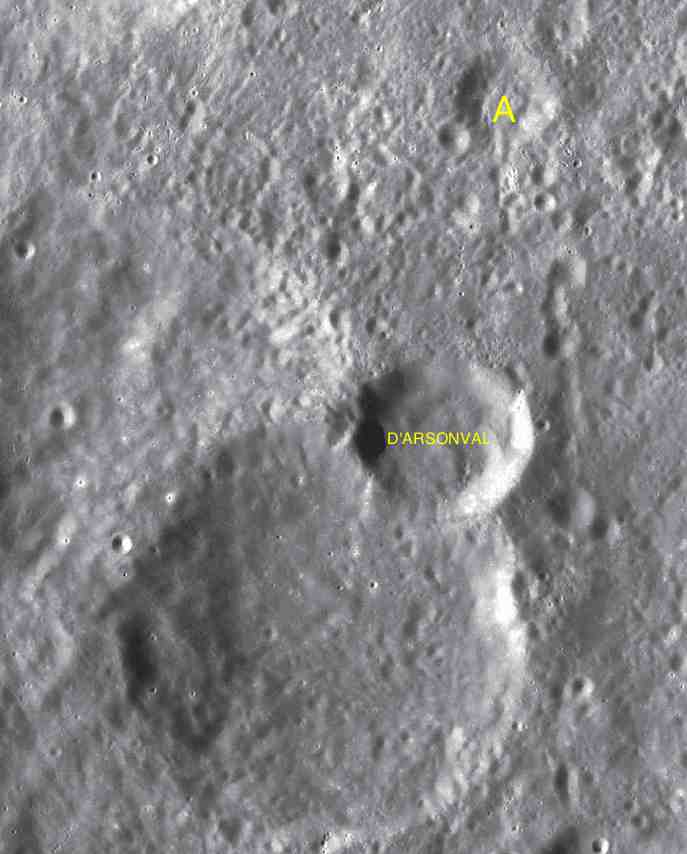 Part of the chart LAC-83 used for the presentation